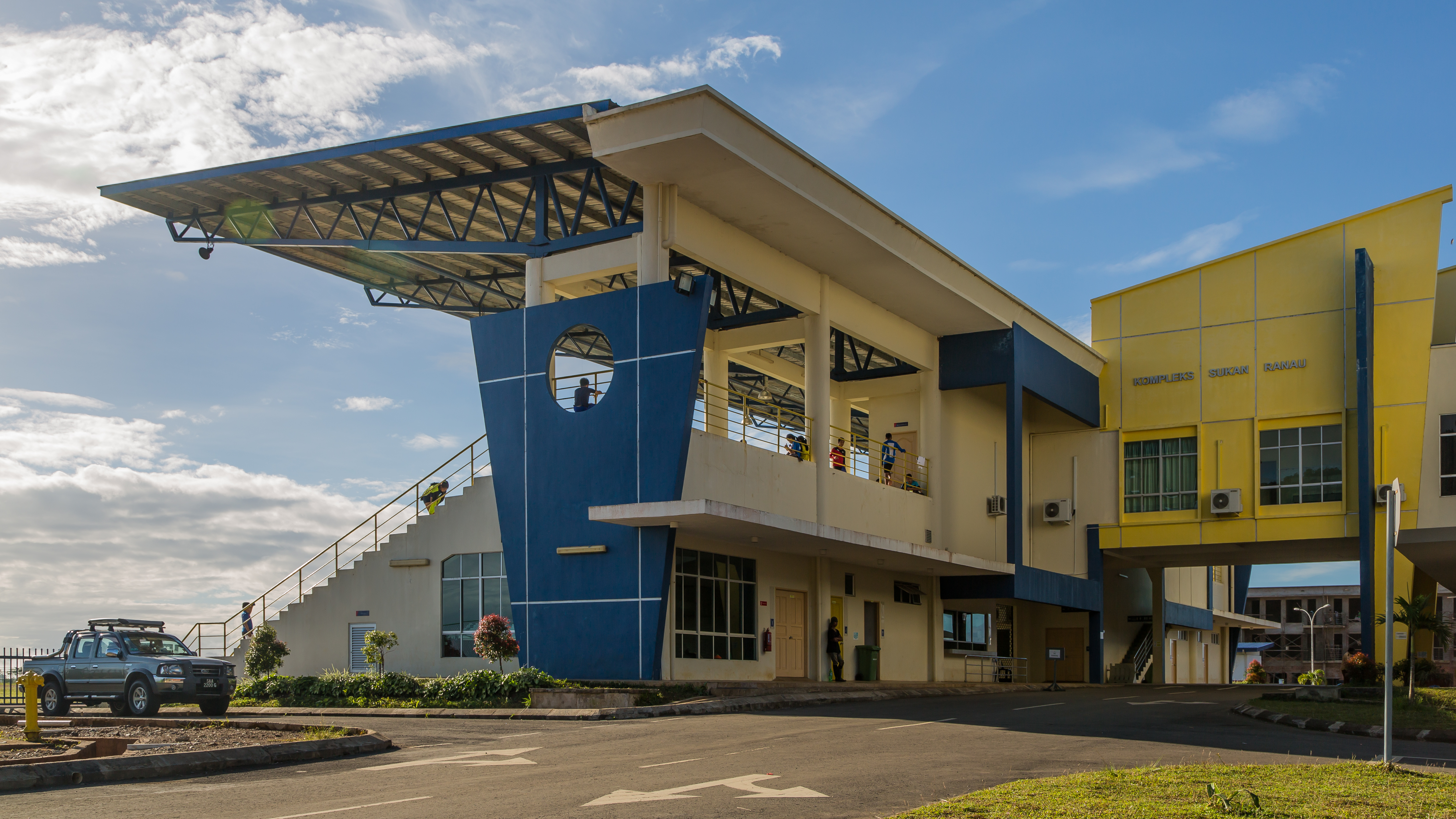 Ranau, Sabah: New Ranau Sports Stadium